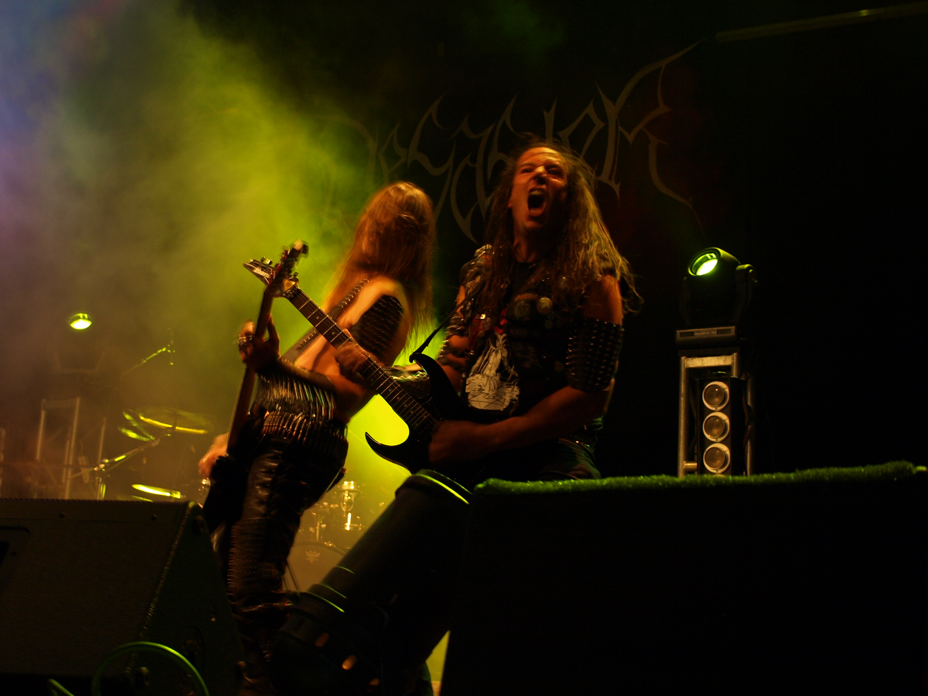 German thrash/black metal band Desaster live at Jalometalli 2008 in Oulu.